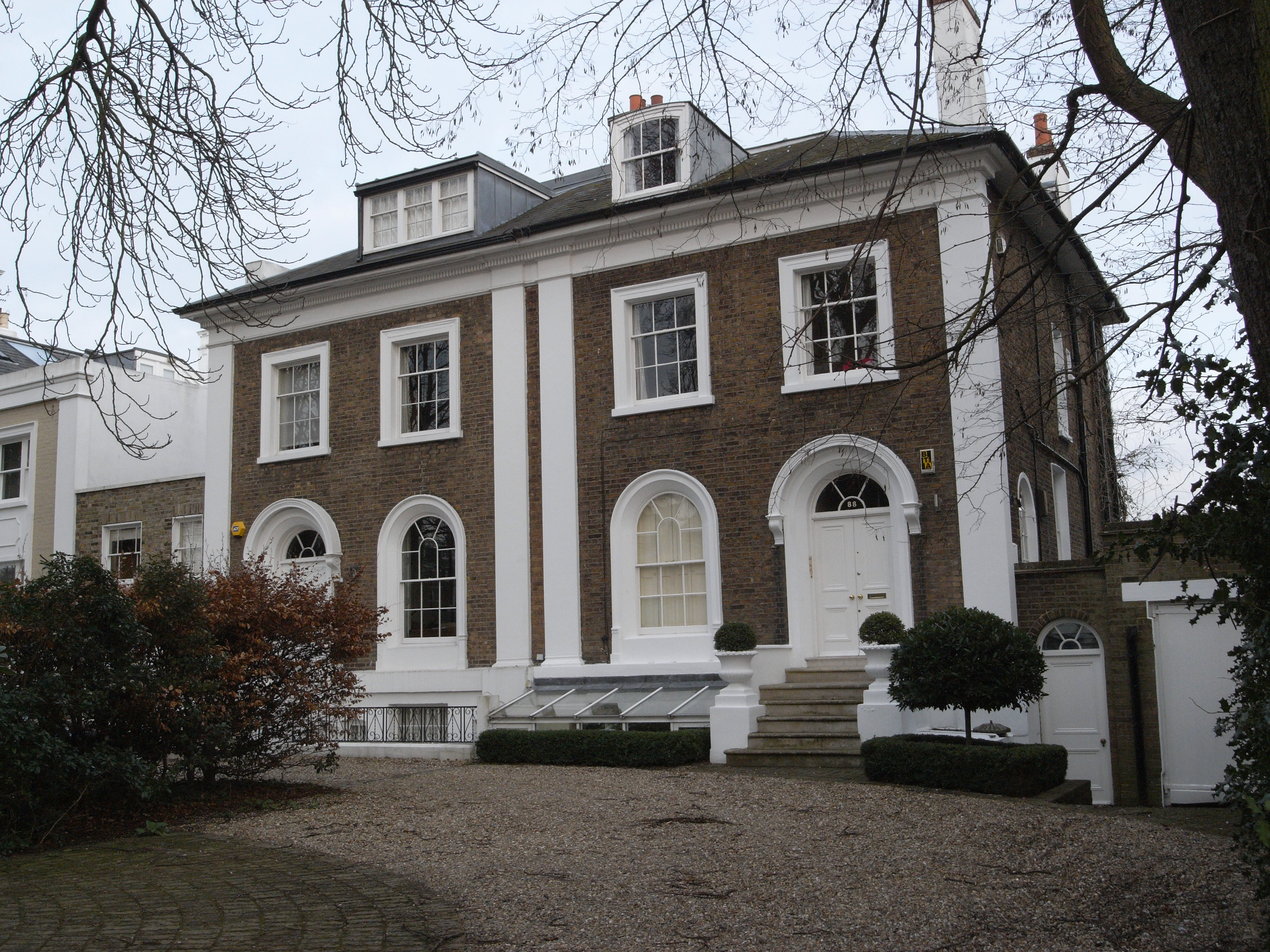 Classical housing in Castelnau, a road in Barnes, south-west London.